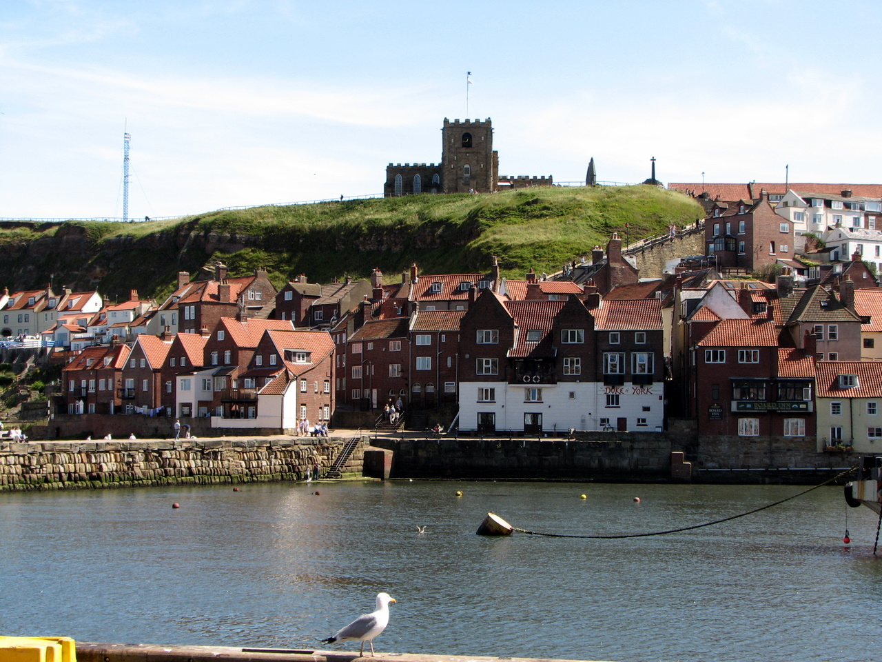 St Mary's Church Whitby